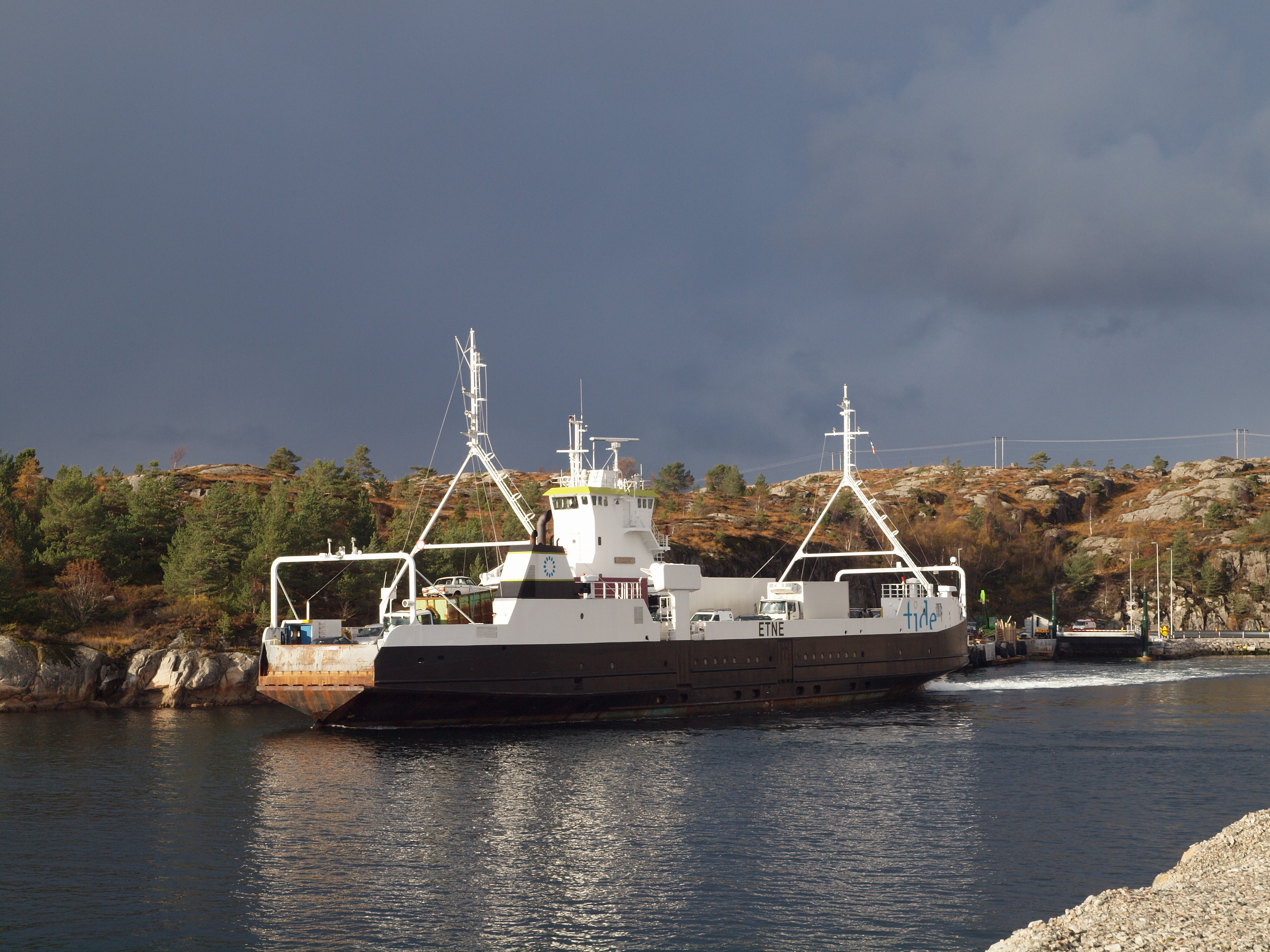 Sløvåg, Gulen municipality, Sogn og Fjordane county, Norway.